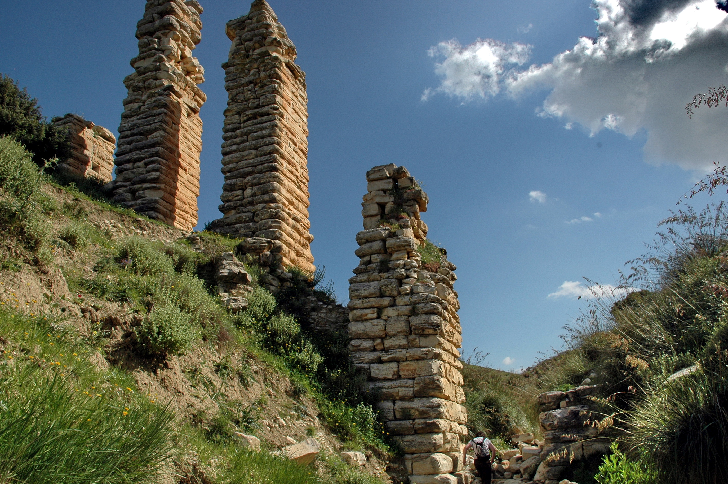 Ruins of aquedcut of Jemma-Zama on oued Fraffez (Tunisia)